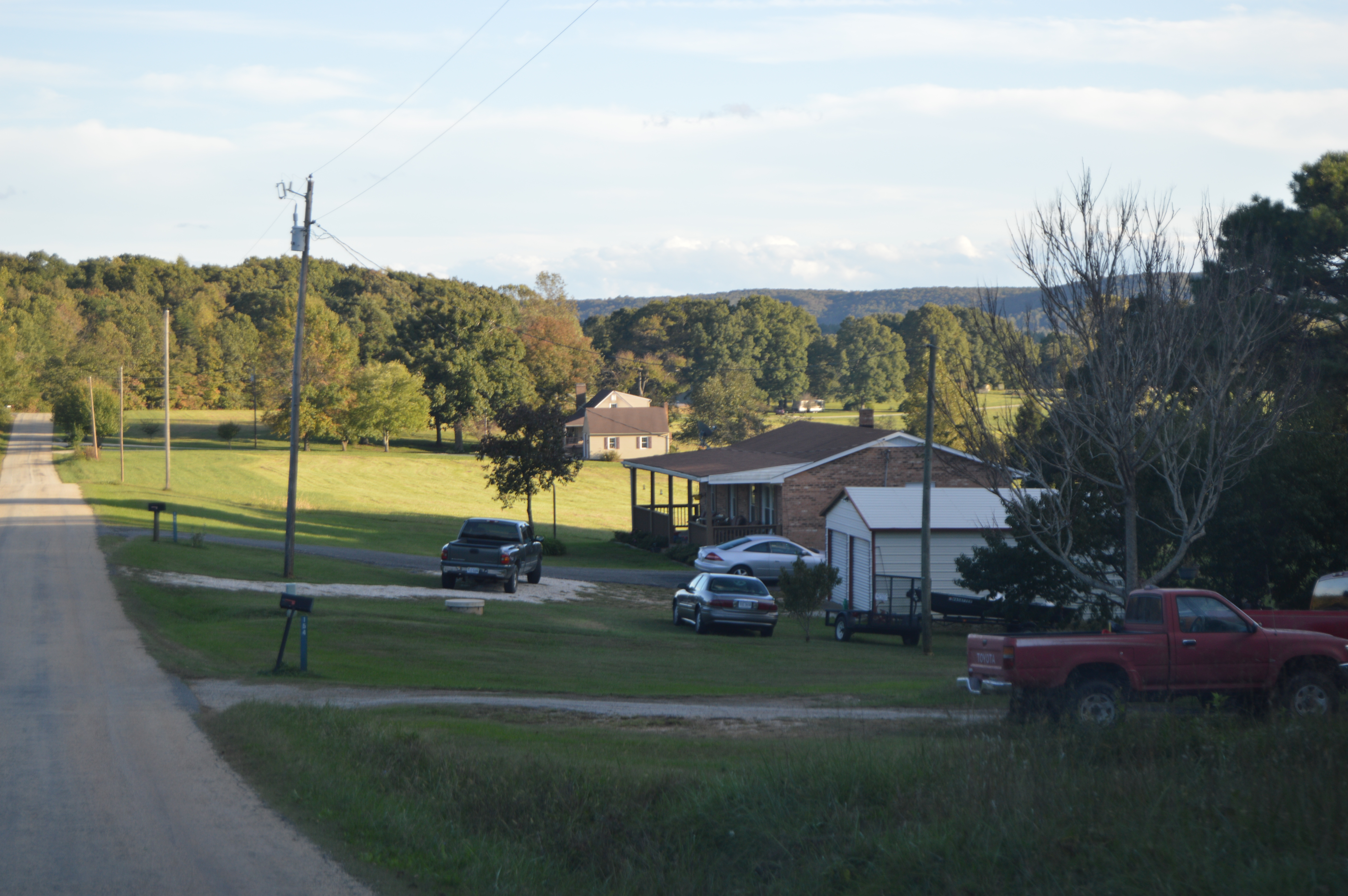 Two houses on James River Road at the spot once known as Beckham, located at the intersection of Beckham and James River Roads in Appomattox County, Virginia, United States.